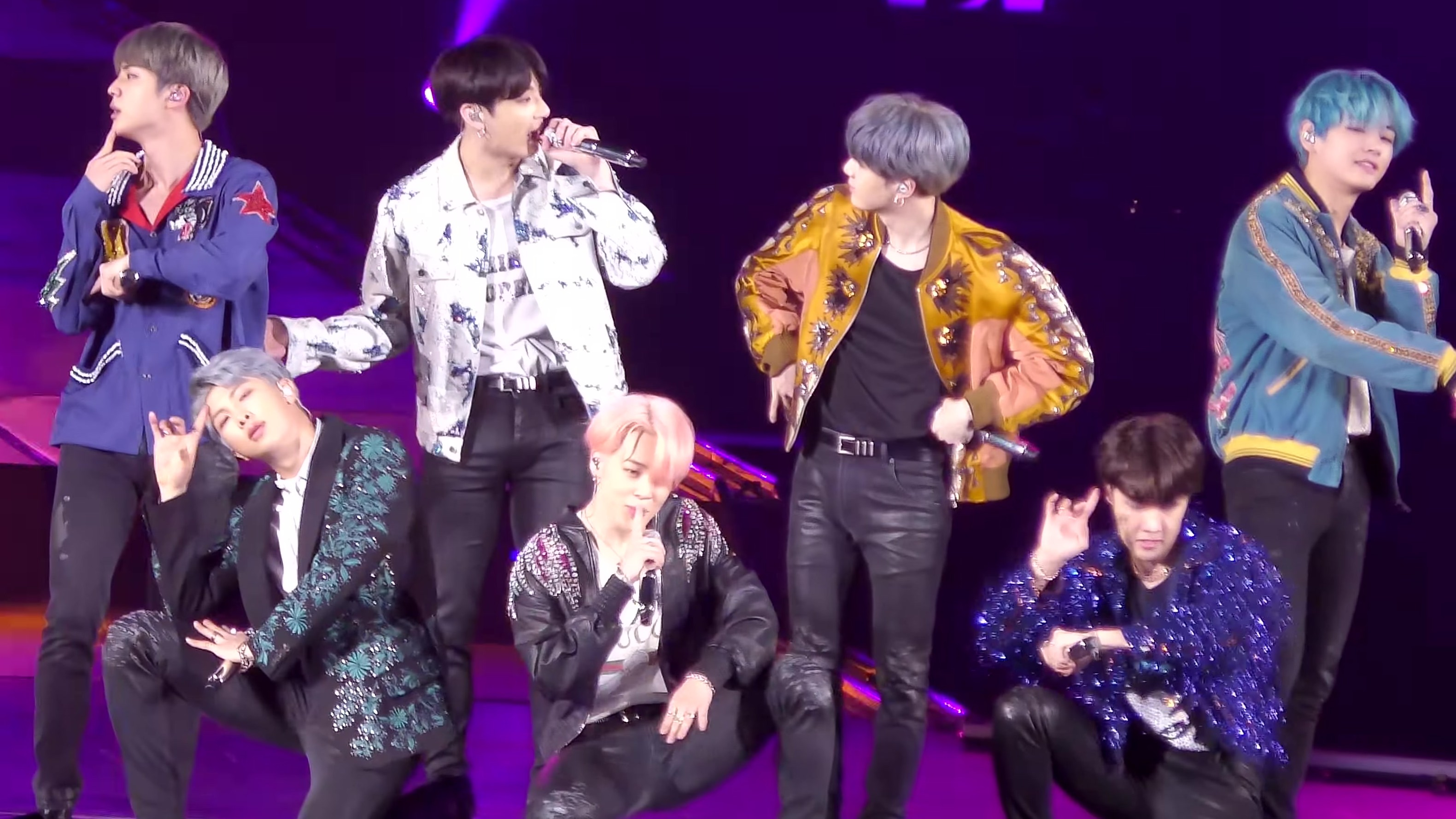 BTS performing "DNA" during the Love Yourself concert in Nagoya, 13 January 2019